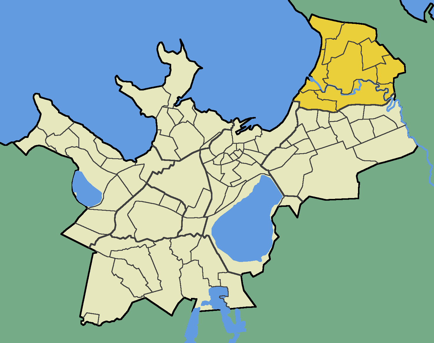 Map of Tallinn (Estonia) with borders of the quarters, Pirita district emphasised